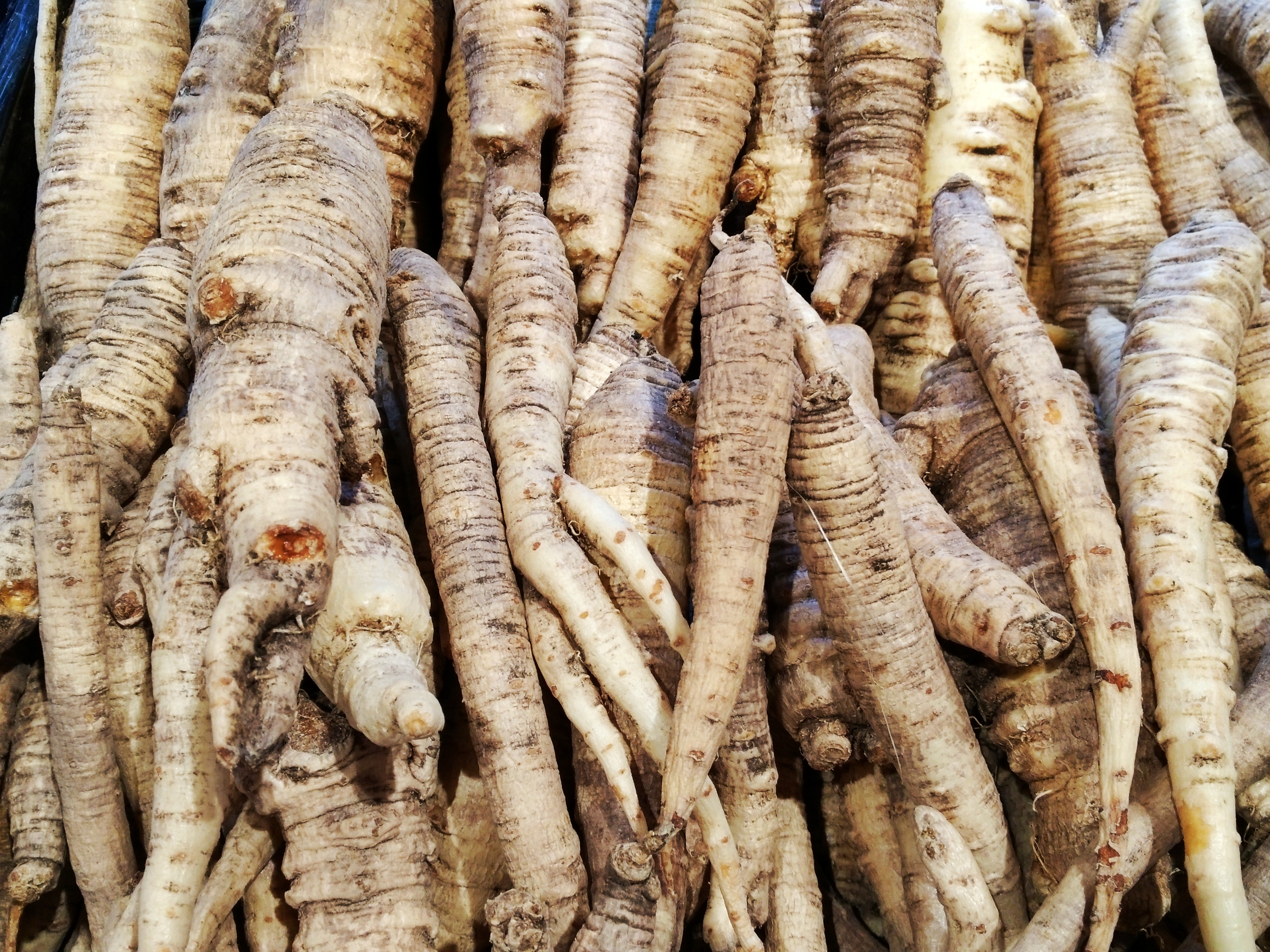 Deodeok (lance asiabell) roots sold at a supermarket in Seoul, Korea